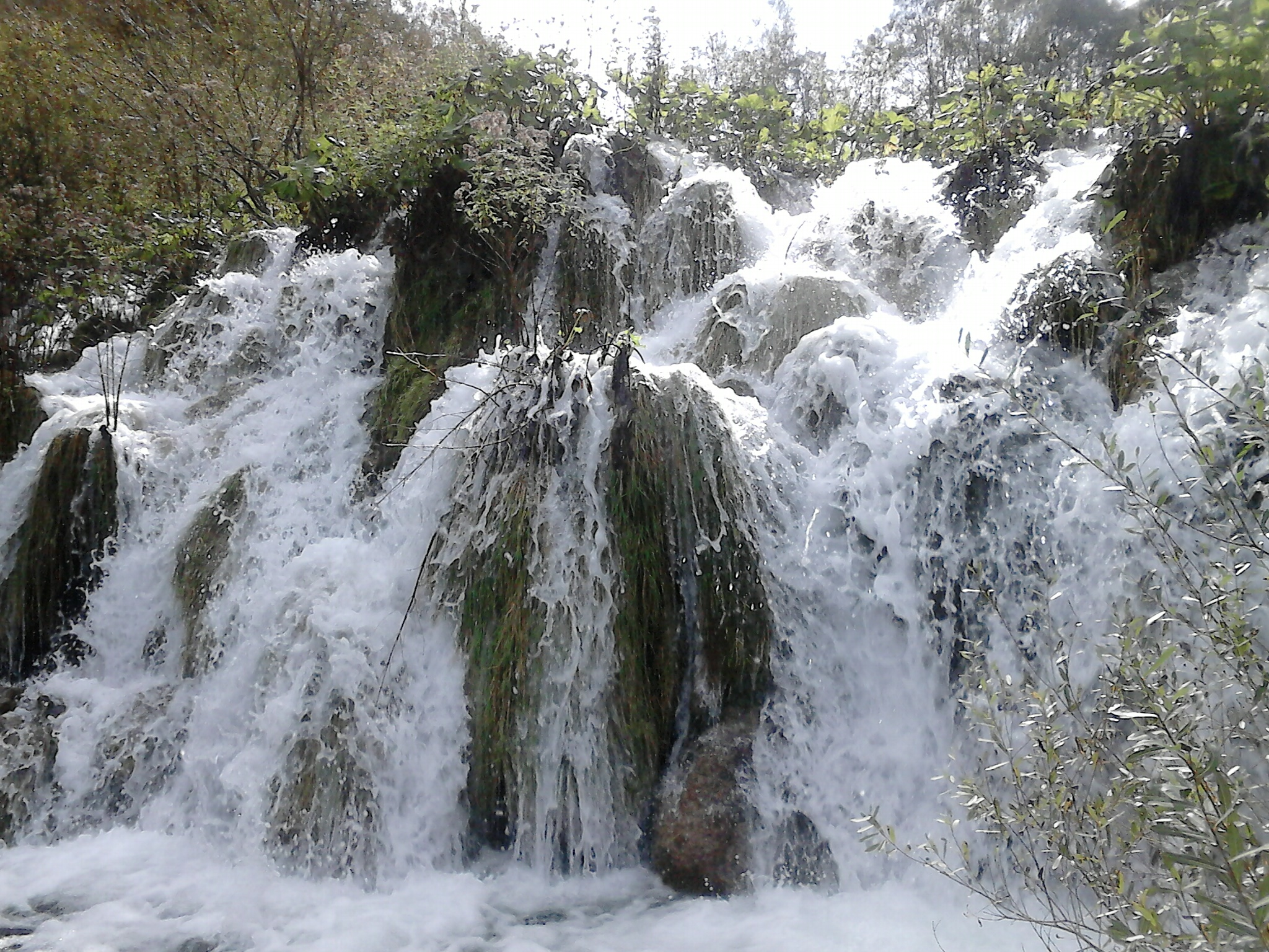 Plitvice